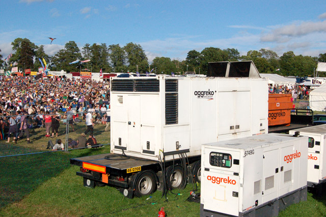 Fairport's Cropredy Convention, 2009: view northeast past the generators at the crowded arena. The event occupies nine fields south and east of Cropredy village, Oxfordshire.